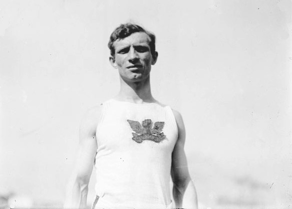 Courtesy of the Chicago Historical Society. Taken in 1904 Myer Prinstein, wearing the Winged Fist of the Irish American Athletic Club in 1904 Copyright: Expired Credit: unknown